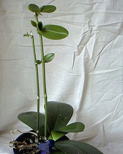 Regular keiki on Phalaenopsis mother plant Photograph taken by Elisabeth Wetsch March 2004 and released under the GNU Free Documentation License. All remaining rights reserved.